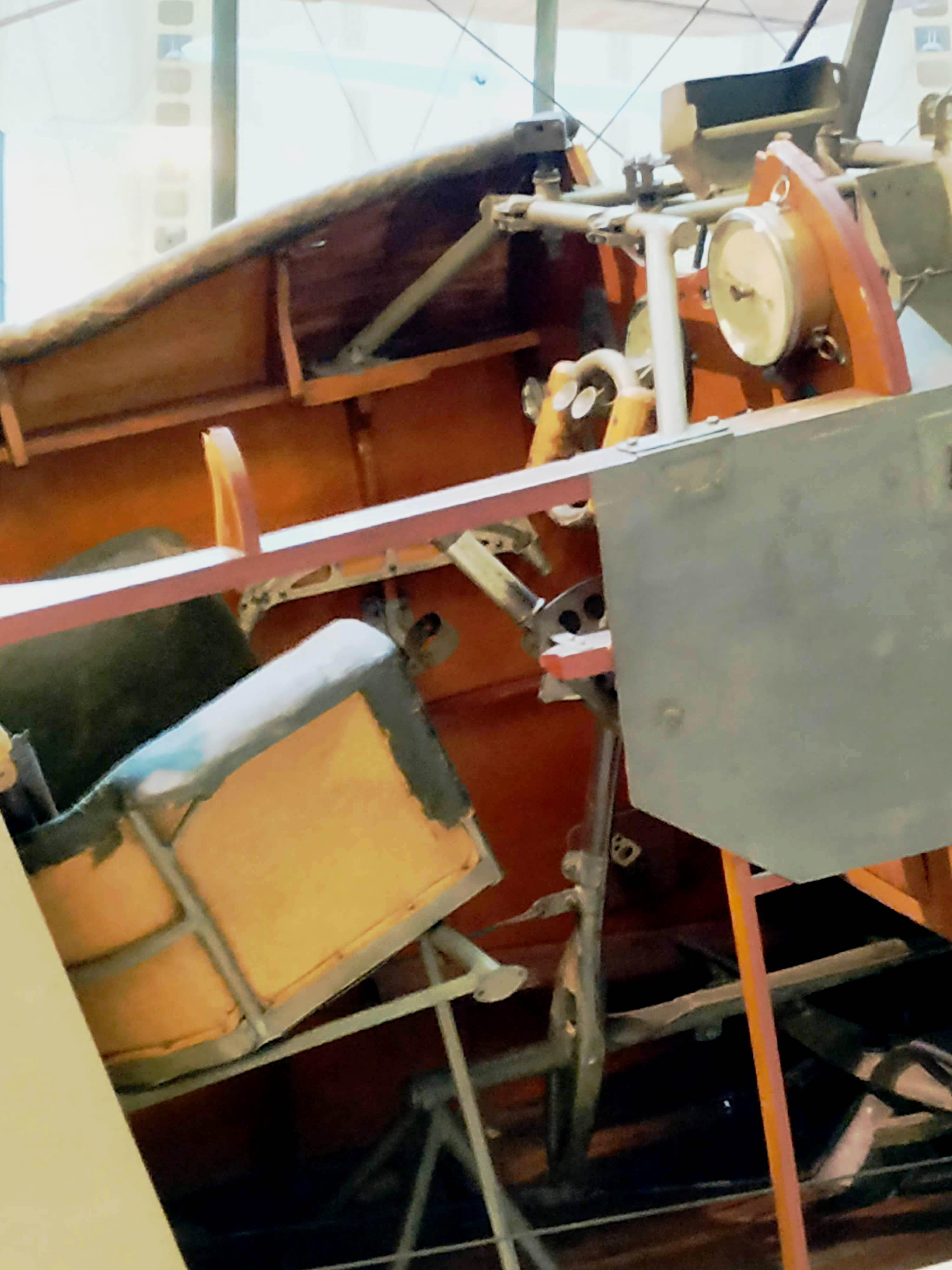 Technical Museum Vienna. Cockpit aircraft Aviatik Berg D.1.